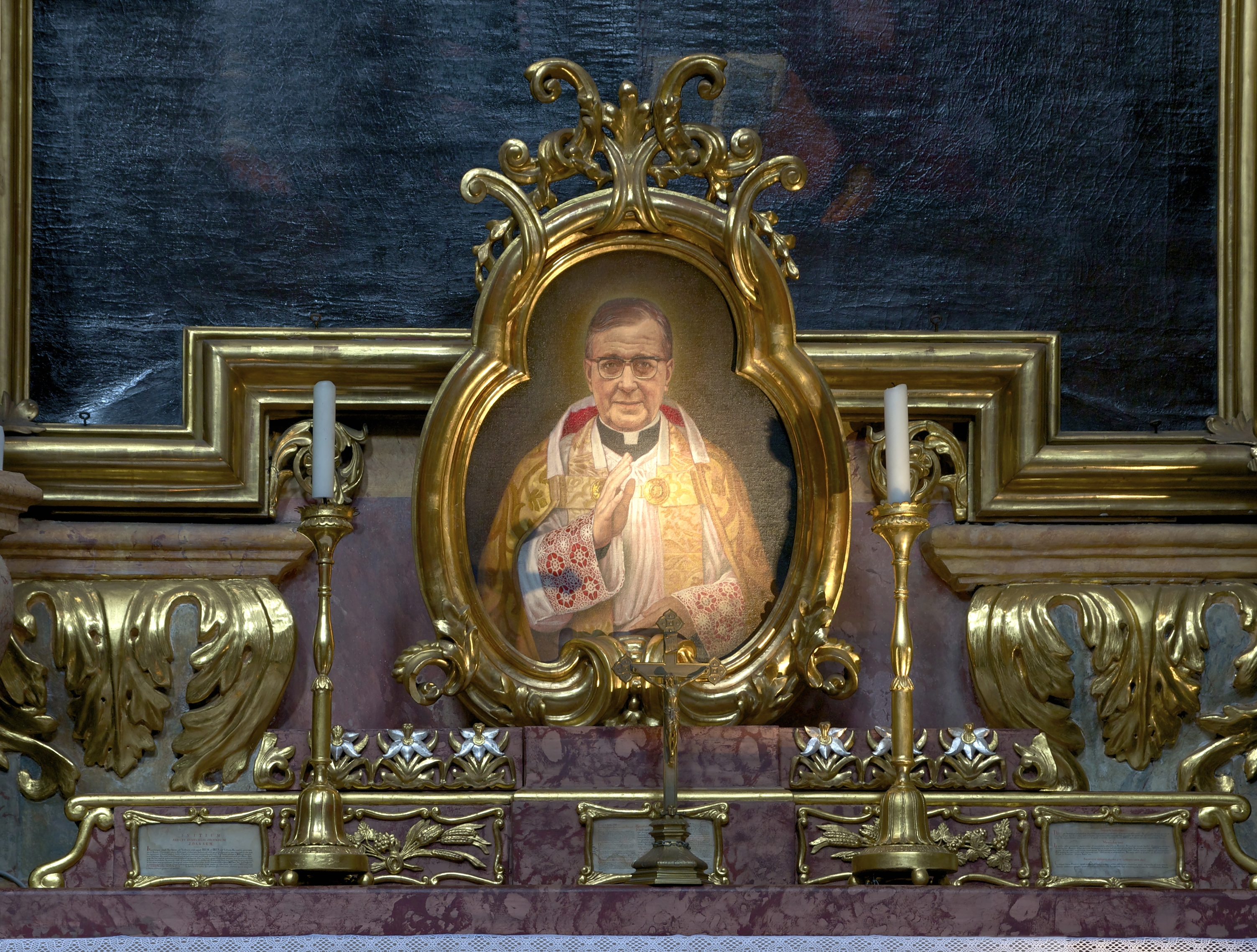 Detail of an altar dedicated to Saint Josemaría Escrivá de Balaguer (1902-1975), founder of the Opus Dei, Peterskirche, Vienna, Austria.